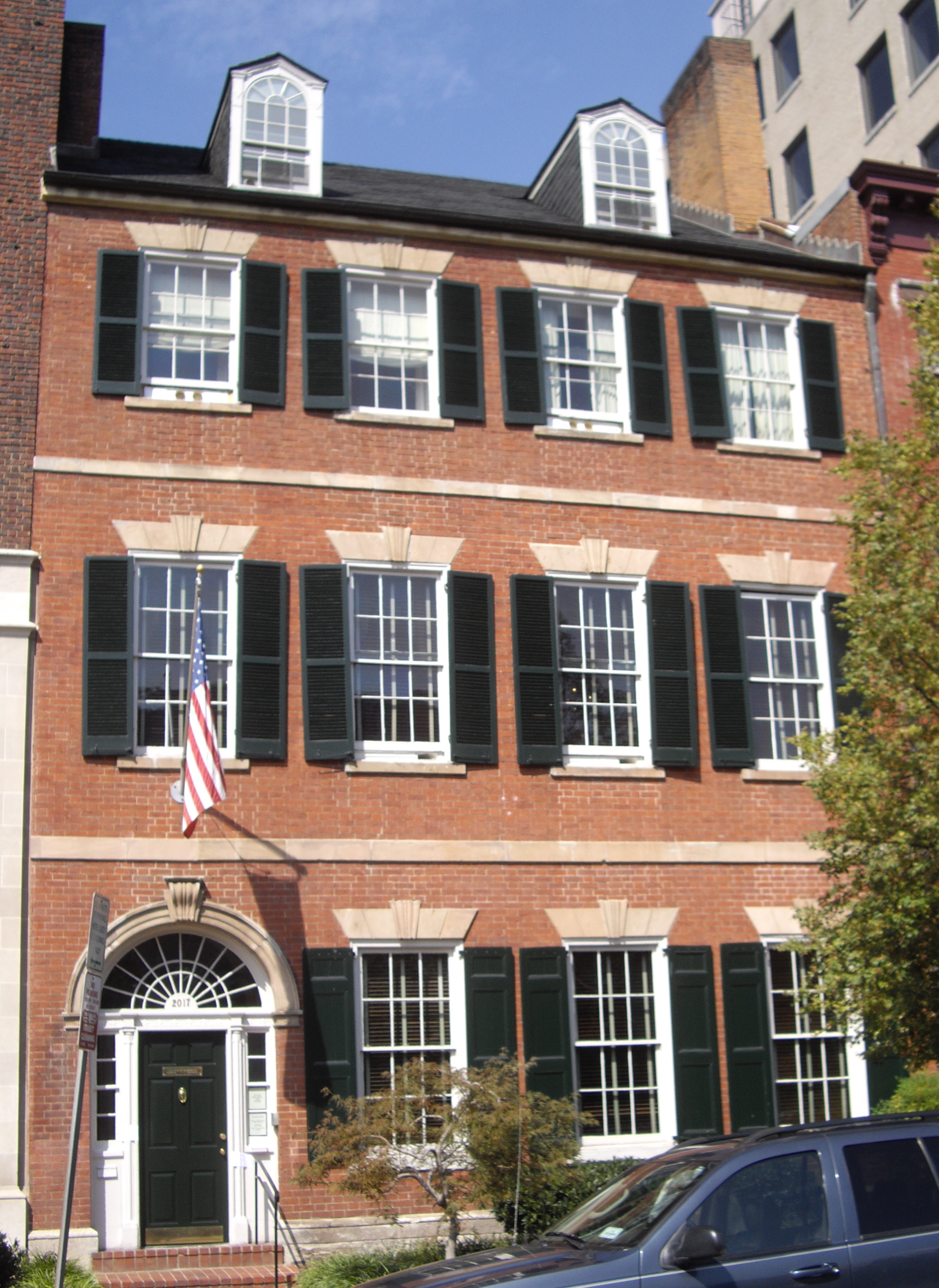 Cleveland Abbe House in Washington DC, presently home to the Arts Club of Washington